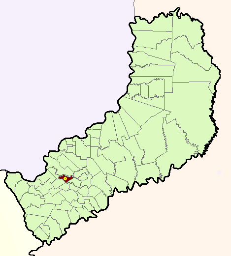 Map showing municipio of Mártires in Misiones Province, Argentina. Big point is Mártires town.